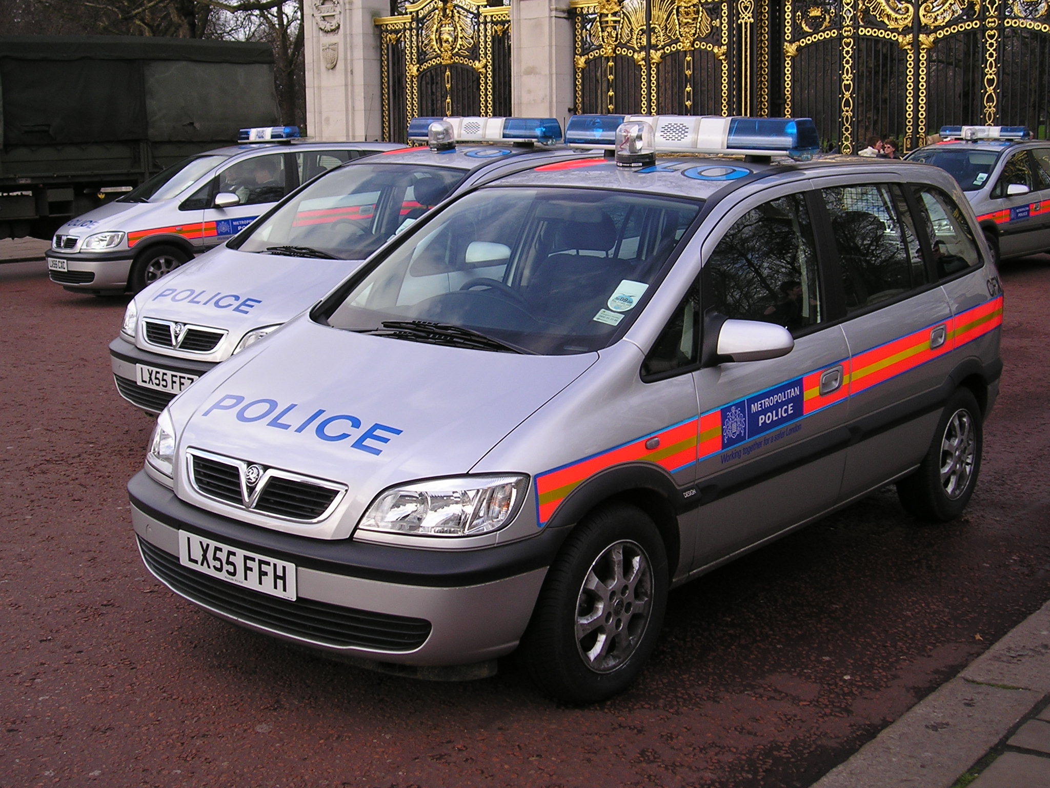 London Metropolitan Police Vauxhall Zafira parked near Buckingham Palace Author:Dani_7C3 Date:15 February 2006